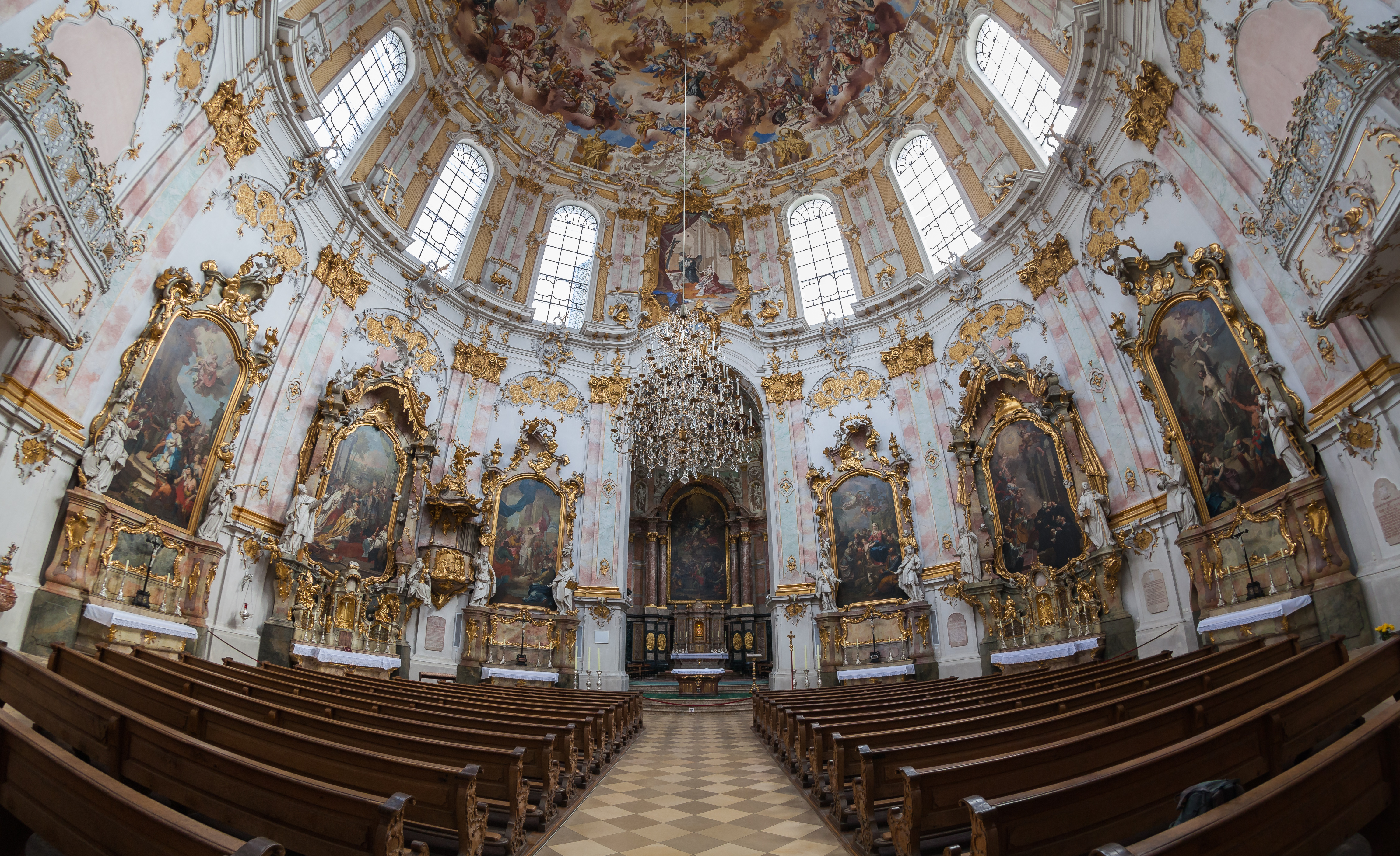 Ettal Abbey, Bavaria, Germany